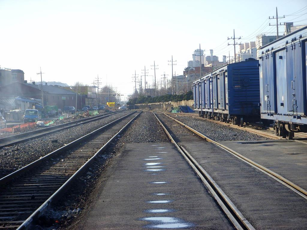 Juin Line Incheon Nambu Station